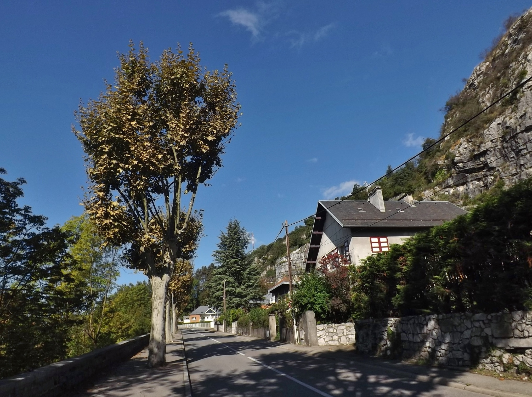 Sight of the Avenue d'Aix-les-Bains (or RD 991 road) coming from the city of Chambéry center ang leading to the Hauts-de-Chambéry neighborhood (heights of town), in Savoie, France.